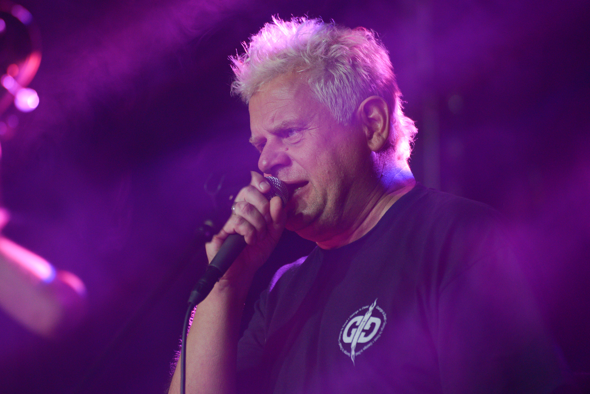 Kazik Staszewski, Concert of Kwartet ProForma in Bielsko-Biala, Poland, Bielsko-Biała, 2016